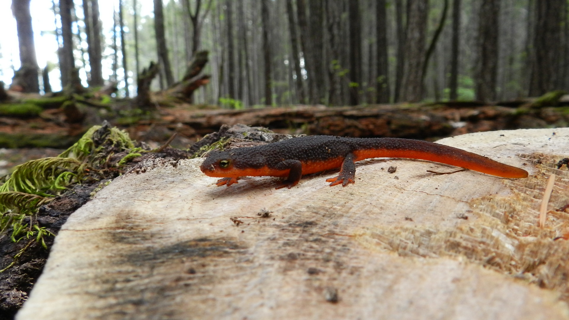 A Rough-skinned Newt. Josephine county, Oregon.